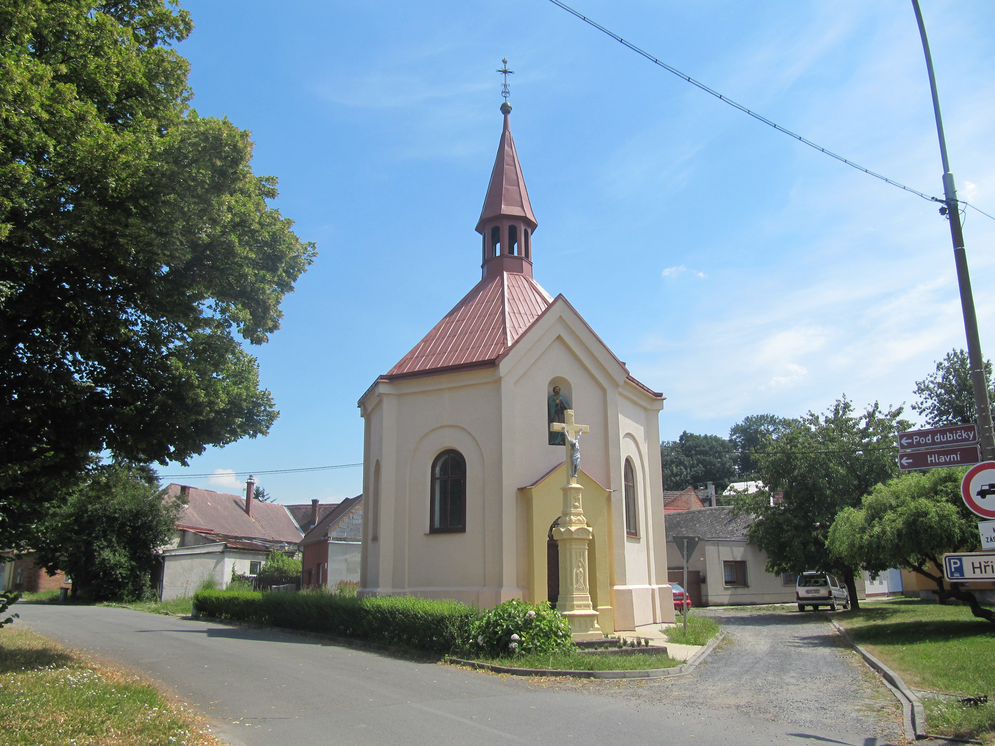 Přerov, Czech Republic, part Újezdec.